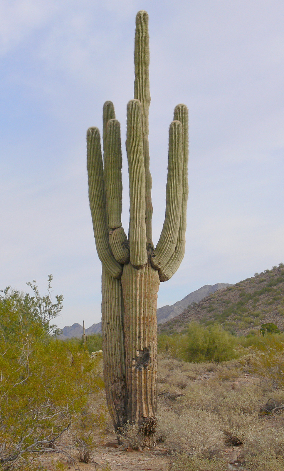 The image was personally taken by me in December 2006. Wars 05:58, 19 December 2006 (UTC)